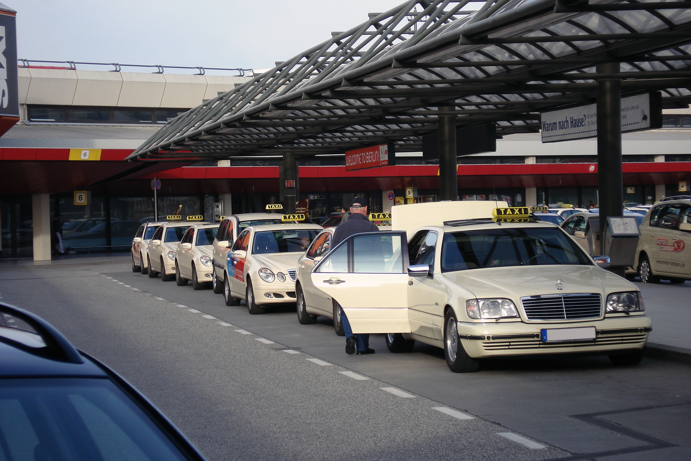 Mercedes S-Class (W140) Taxi at Airport Berlin-Tegel (TXL)